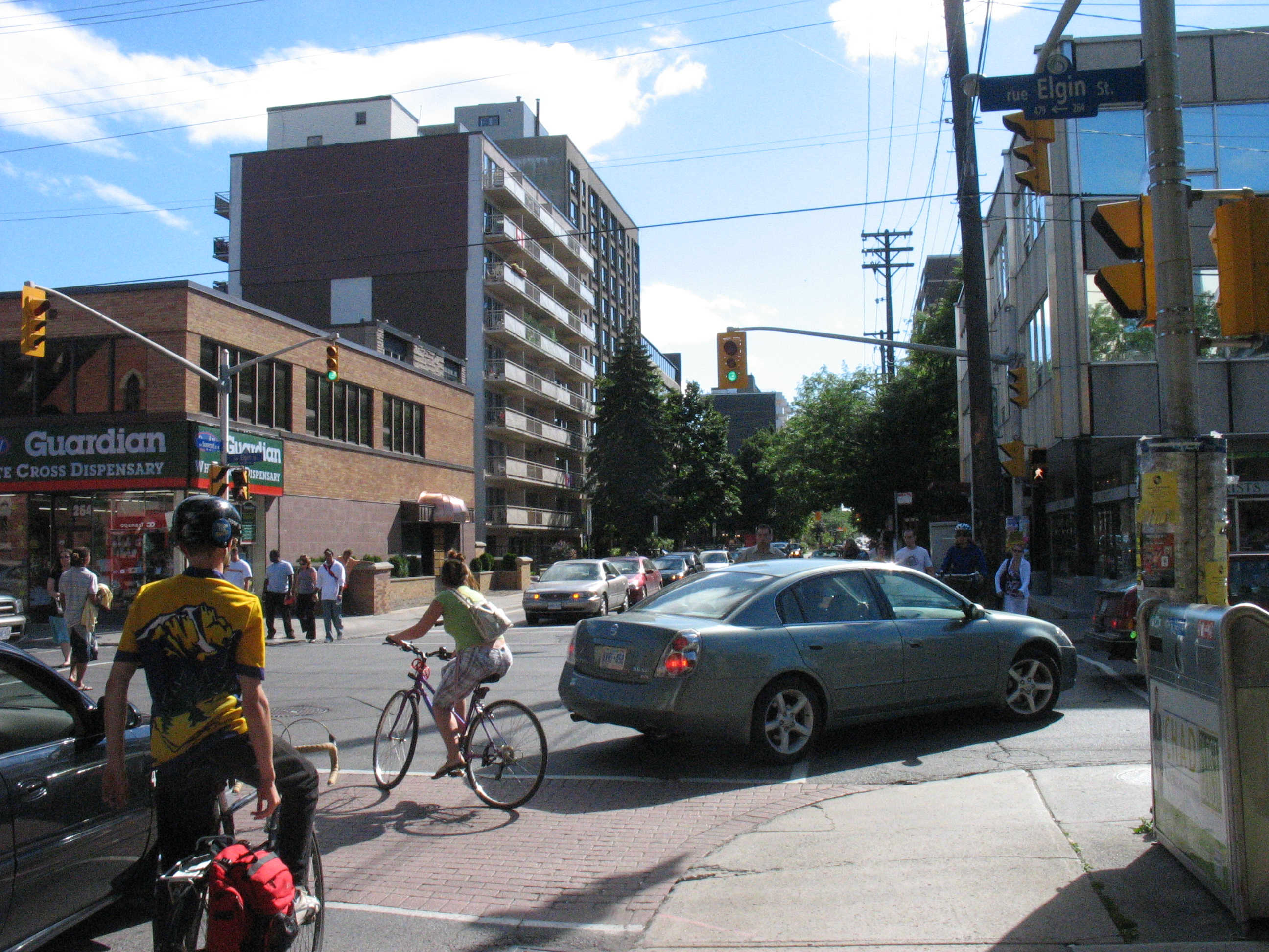 View of Somerset Street in Ottawa at Elgin, facing West